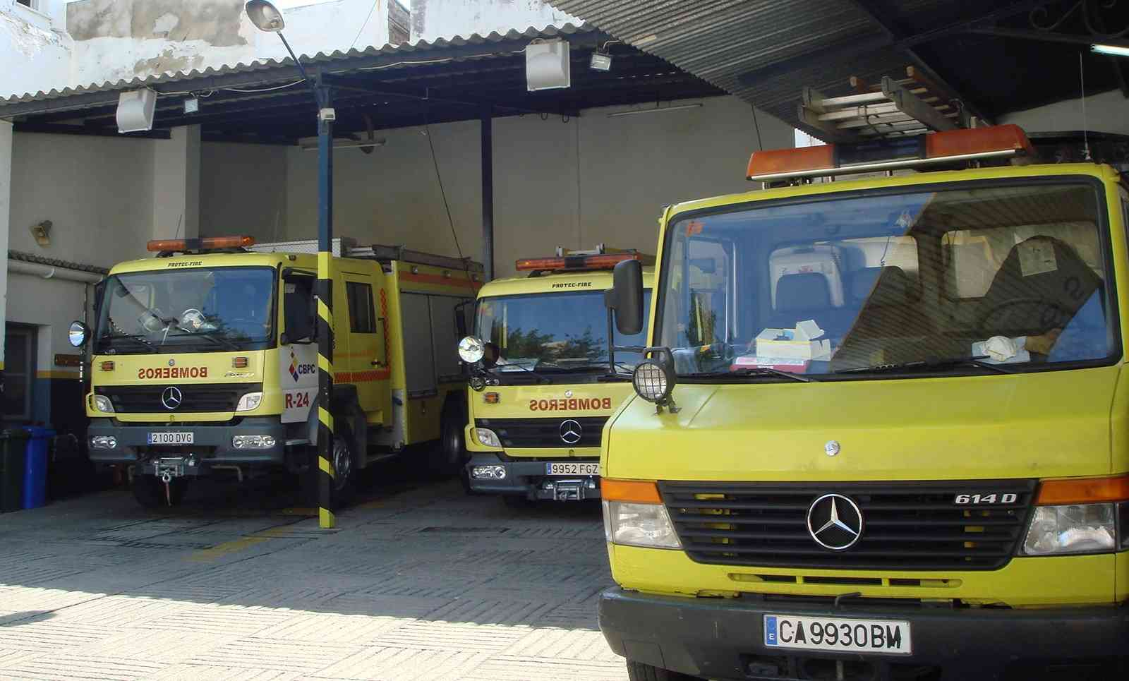 Firestation of Sanlúcar de Barrameda (Cadiz, Spain): vehicles with "BOMBEROS" in mirror writing ("SOREBMOB").